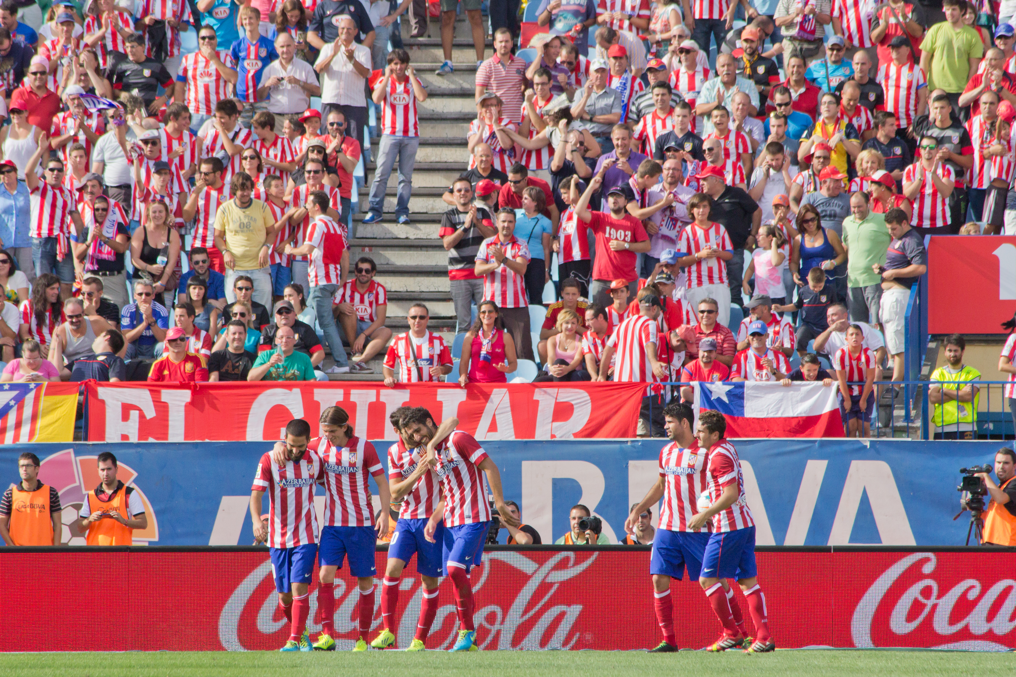 Some players of Atlético de Madrid celebrating a goal.